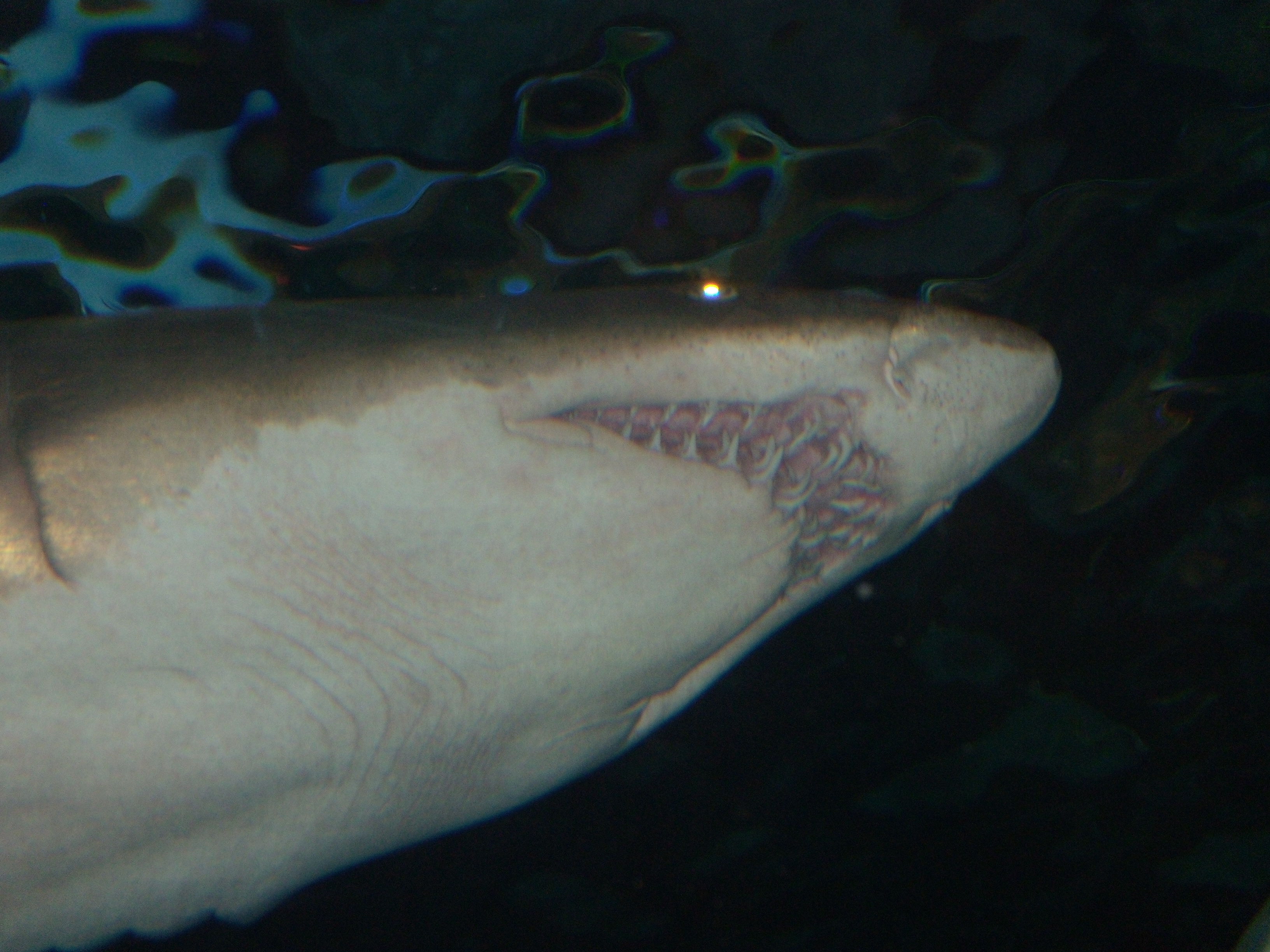 Sand tiger shark